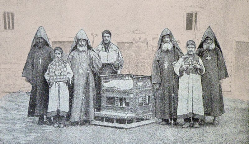 Interior of Varak monastery with monks around King Senekerim’s throne